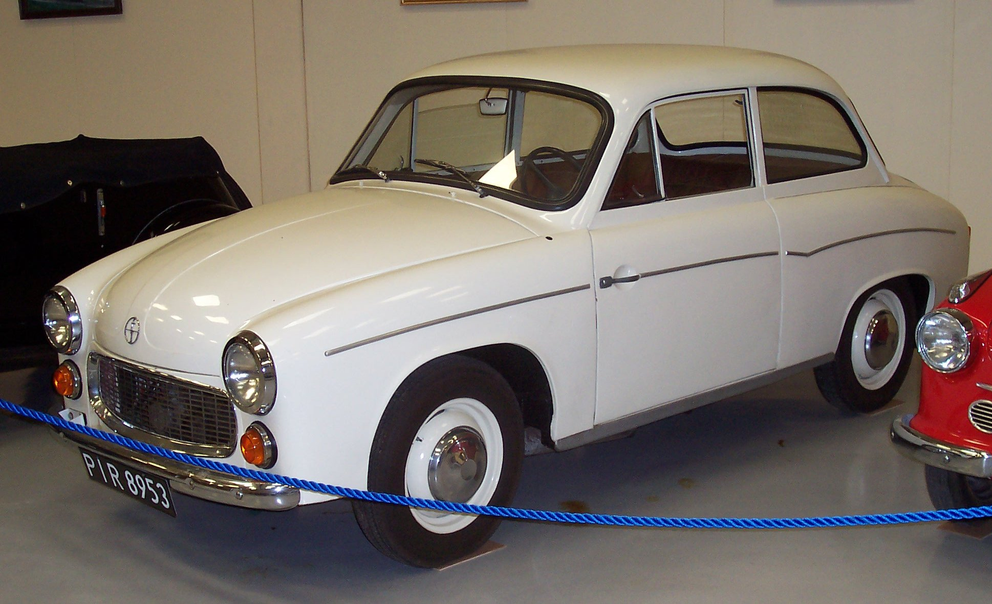 Syrena 104: polish front wheel drive car, with three cylinder two stroke engine. Location: Vestsjaellands Bilmuseum, Hoeng, Denmark